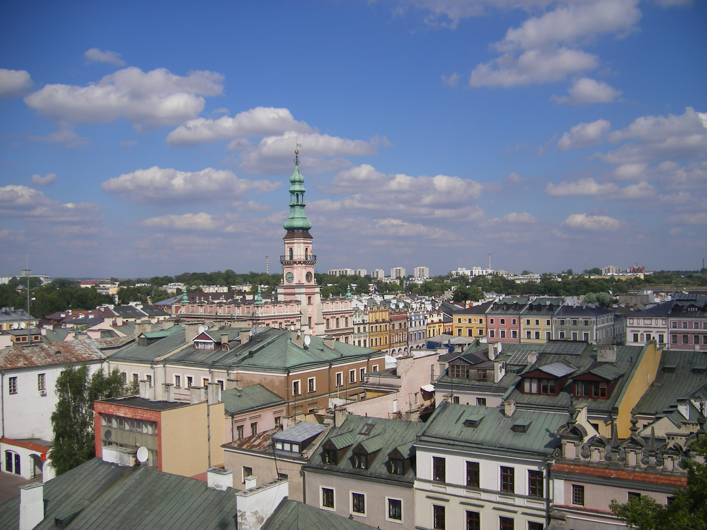 Zamość, View from the Cathedral Tower